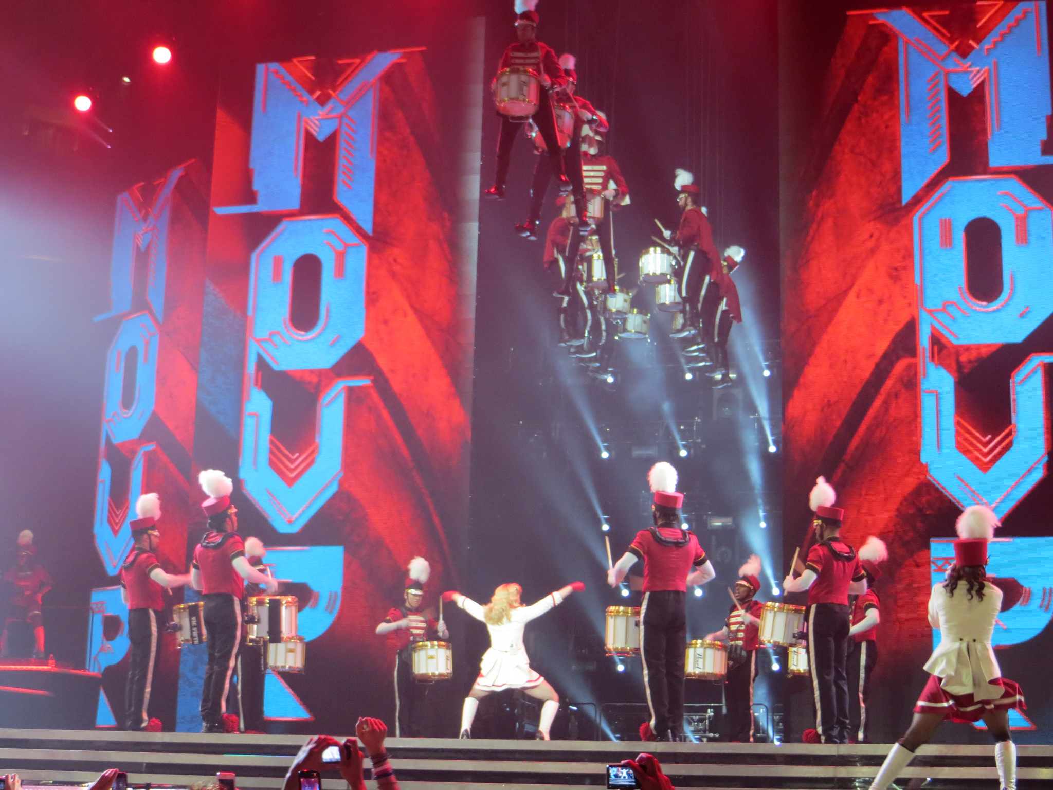 Madonna - MDNA World Tour 2012 - Dallas, TX 10/21/12